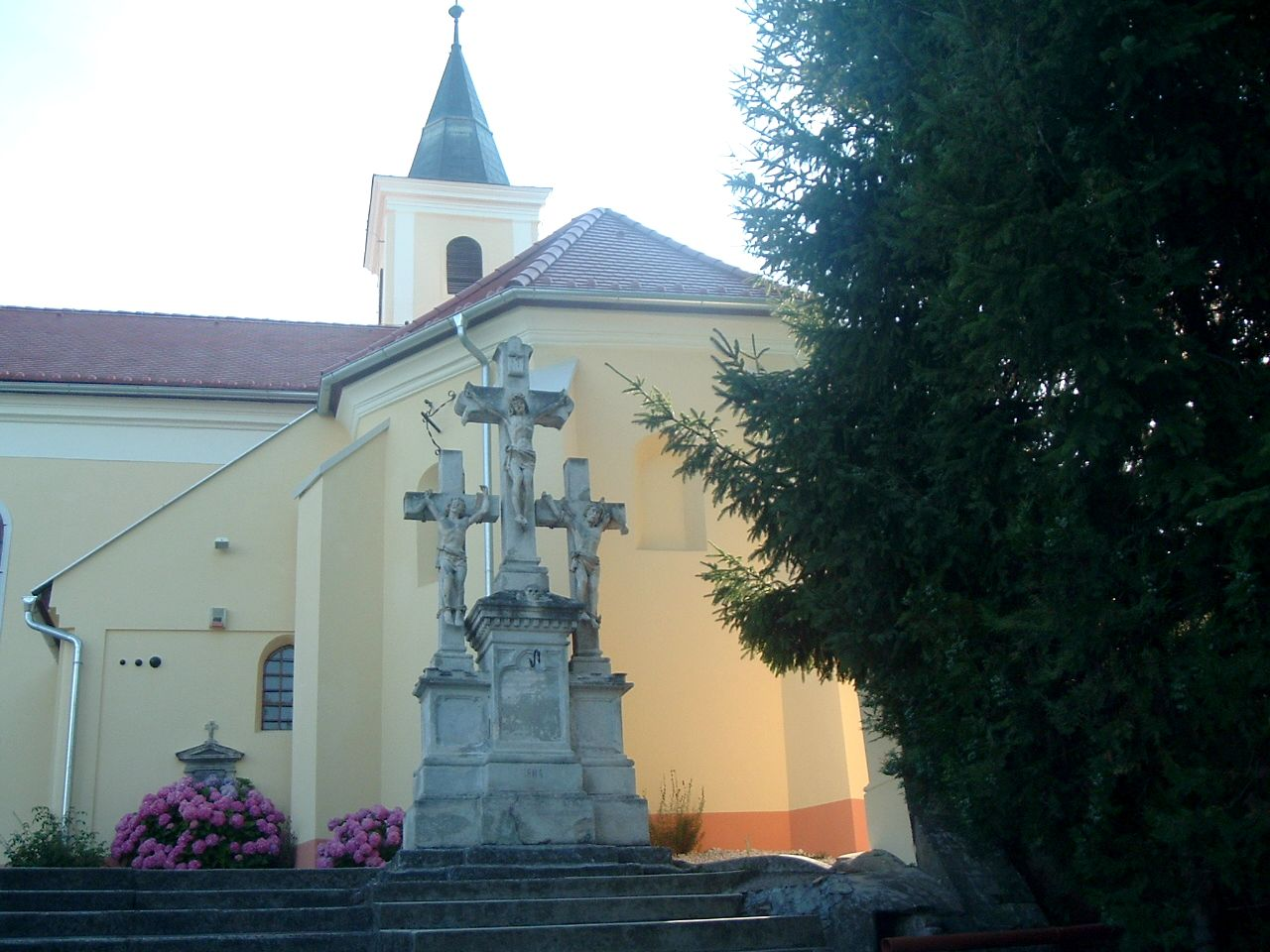 Roman Catholic Church in Répcevis, Hungary